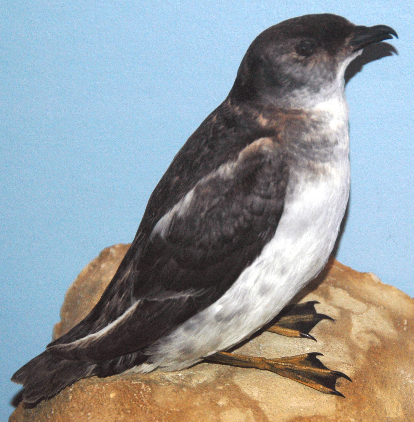 Pelecanoides georgicus Murphy & Harper, 1916 - South Georgian diving-petrel (mount, Field Museum of Natural History, Chicago, Illinois, USA). Classification: Animalia, Chordata, Vertebrata, Aves, Procellariiformes, Pelecanoididae Birds are small to large, warm-blooded, egg-laying, feathered, bipedal vertebrates capable of powered flight (although some are secondarily flightless). Many scientists characterize birds as dinosaurs, but this is consequence of the physical structure of evolutionary diagrams. Birds aren’t dinosaurs. They’re birds. The logic & rationale that some use to justify statements such as “birds are dinosaurs” is the same logic & rationale that results in saying “vertebrates are echinoderms”. Well, no one says the latter. No one should say the former, either. However, birds are evolutionarily derived from theropod dinosaurs. Birds first appeared in the Triassic or Jurassic, depending on which avian paleontologist you ask. They inhabit a wide variety of terrestrial and surface marine environments, and exhibit considerable variation in behaviors and diets.